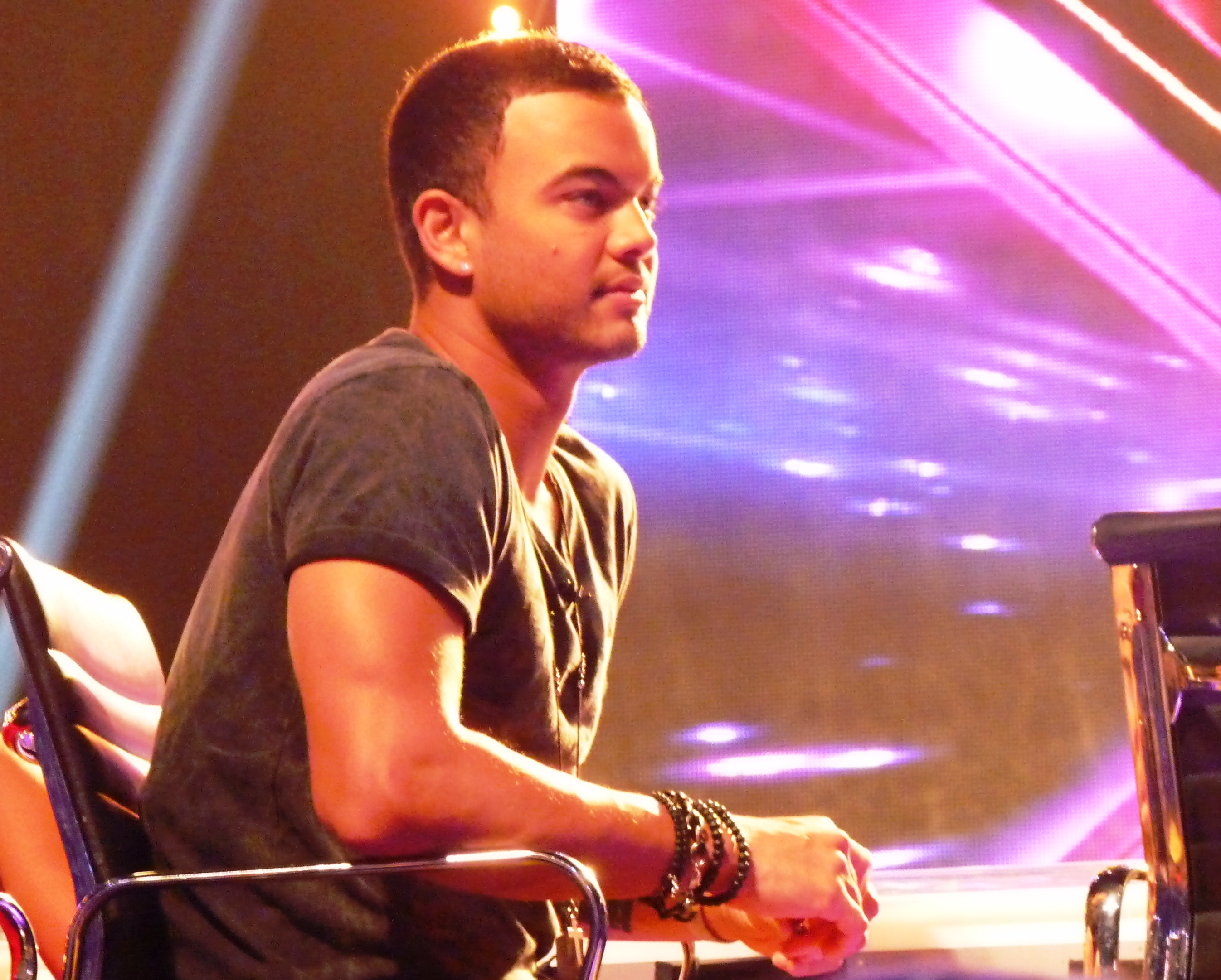 Guy Sebastian is a Judge on the 2012 Australian version of X Factor along with Ronan Keating, Mel B and Natalie Bassingthwaite.